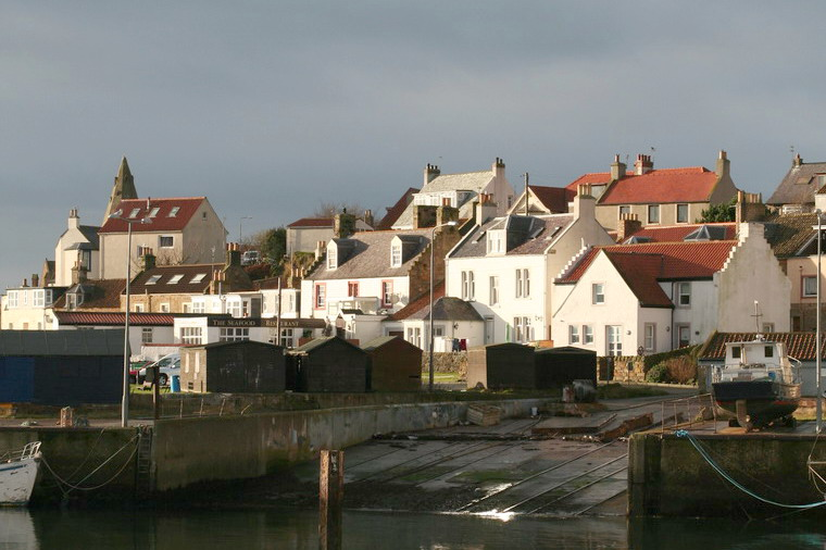 A view of the west end of St Monans harbour, with the spire of the church just visible behind the houses